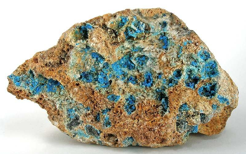 Penfieldite, Boleite, Cotunnite Locality: Sierra Gorda District, Tocopilla Province, Antofagasta Region, Chile (Locality at ) Size: 12.8 x 7.9 x 6.4 cm. A rich and large specimen of these rare species, from new finds in Chile. There are veins scattered all over the specimen, with interesting study material throughout. Collected 10 km from Sierra Gorda Station. Ex. Dr. Mark Feinglos Collection.